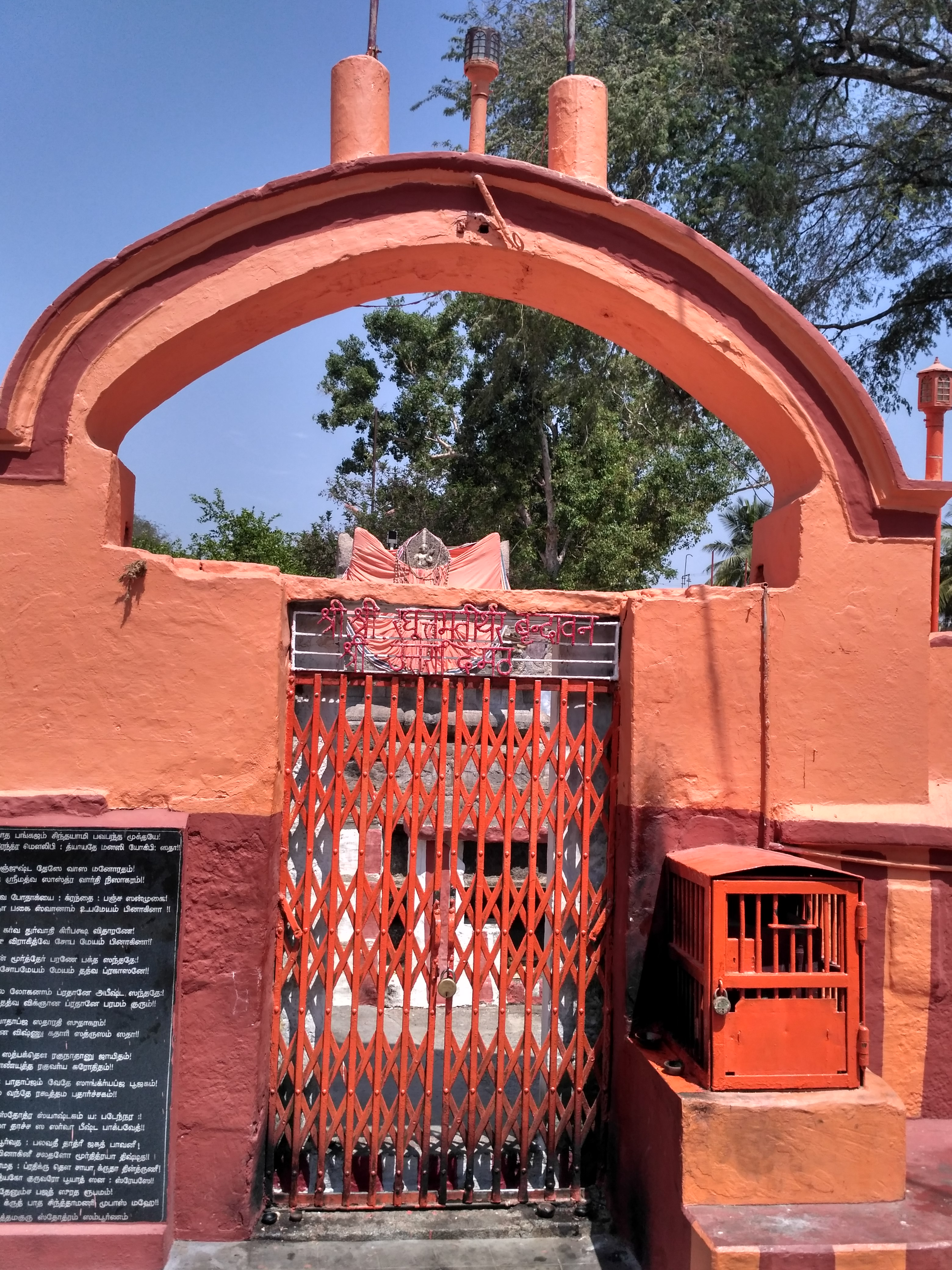 sri ragothamar's jeeva samathi